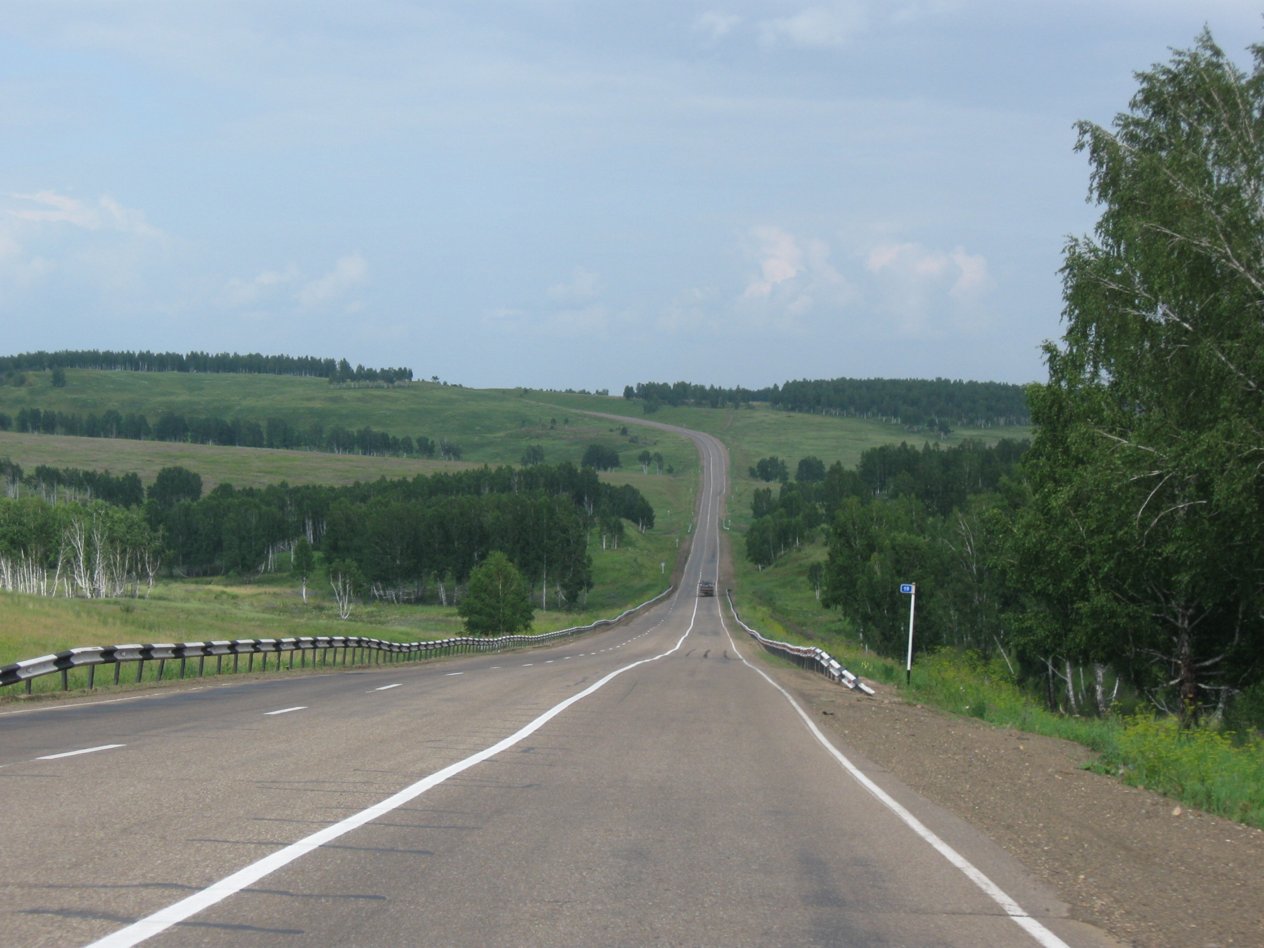 19th km of road 04K-20 «Kansk-Aban-Boguchany» in Aban District